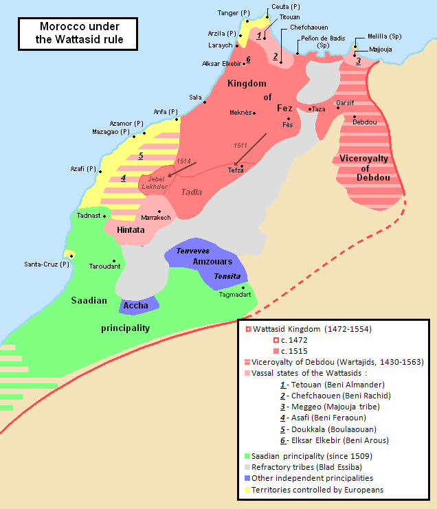 Geopolitical map of Morocco under Wattasid rule. Inspired from a map in the book "Le Maroc dans les premières années du XVIe siècle : Tableau géographique d'après Léon L'Africain", par Louis Massignon, dans "Mémoires de la Société Historique Algérienne I", Éd. Adolphe Jourdan (1906). (Num. OCLC 490558897) (in French). 1472 borders are the ones inherited from the Merinids.